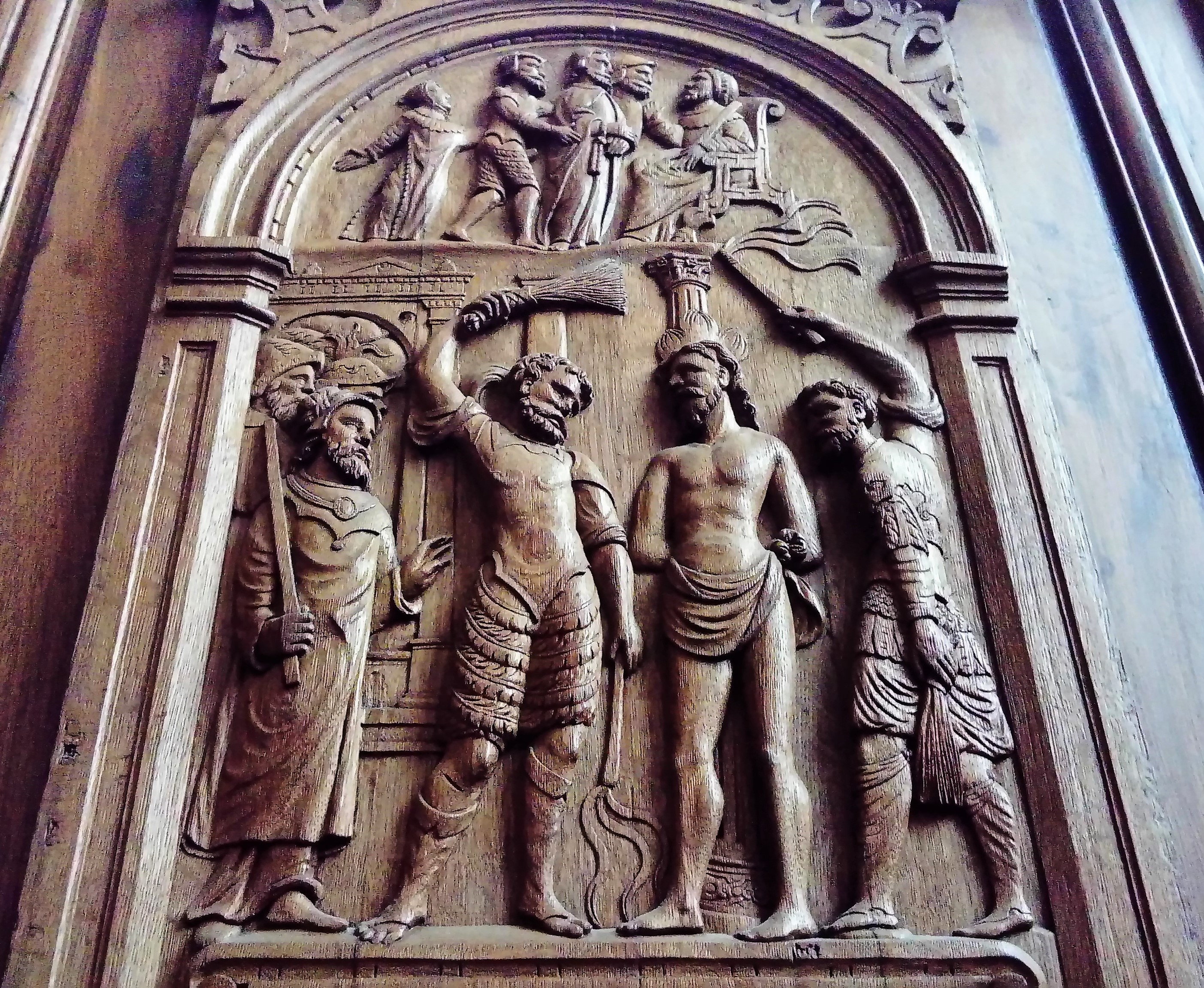 Carved representation of the flagellation of Christ on a wooden panel exhibited in Le Mans Cathedral in France. .